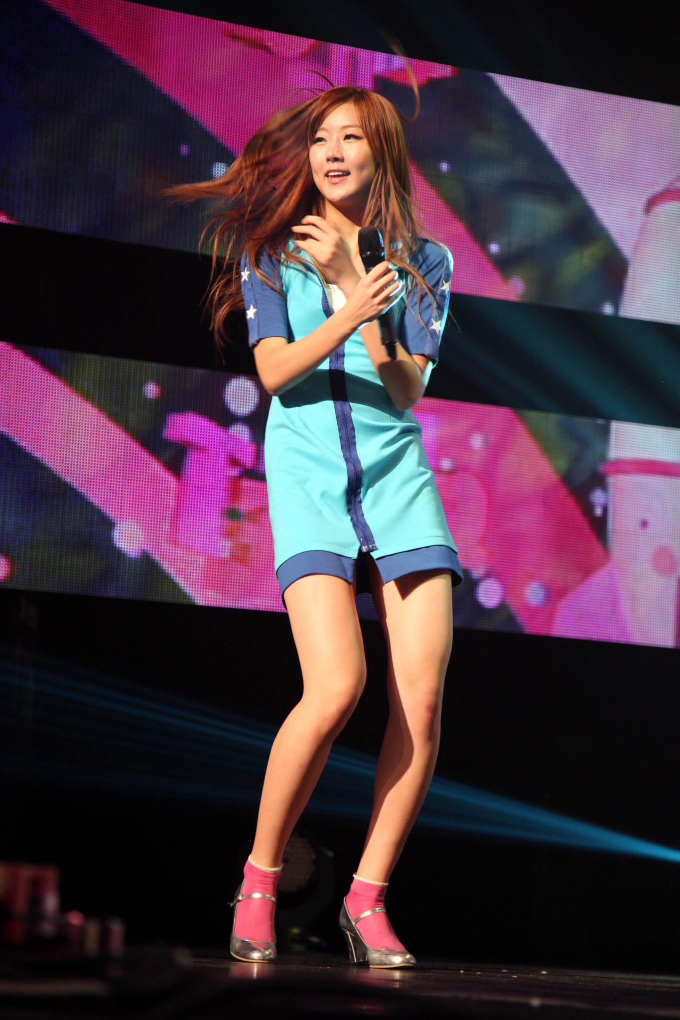 달샤벳 @ Cyworld Dream Music Festival 싸이월드 드림 뮤직 페스티벌_16